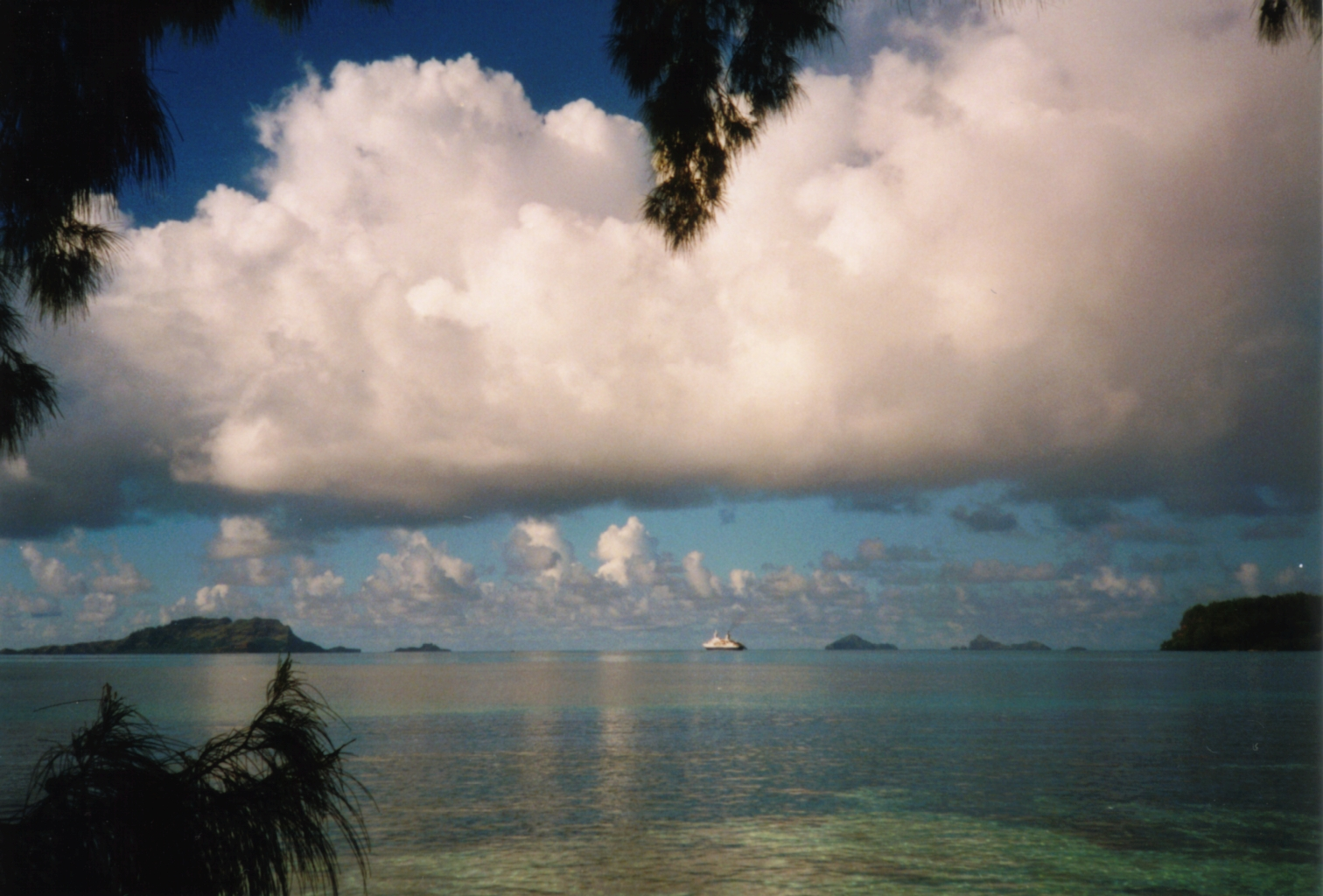 View across the lagoon of the Gambier Islands, French Polynesia, with World Discoverer in the centre.